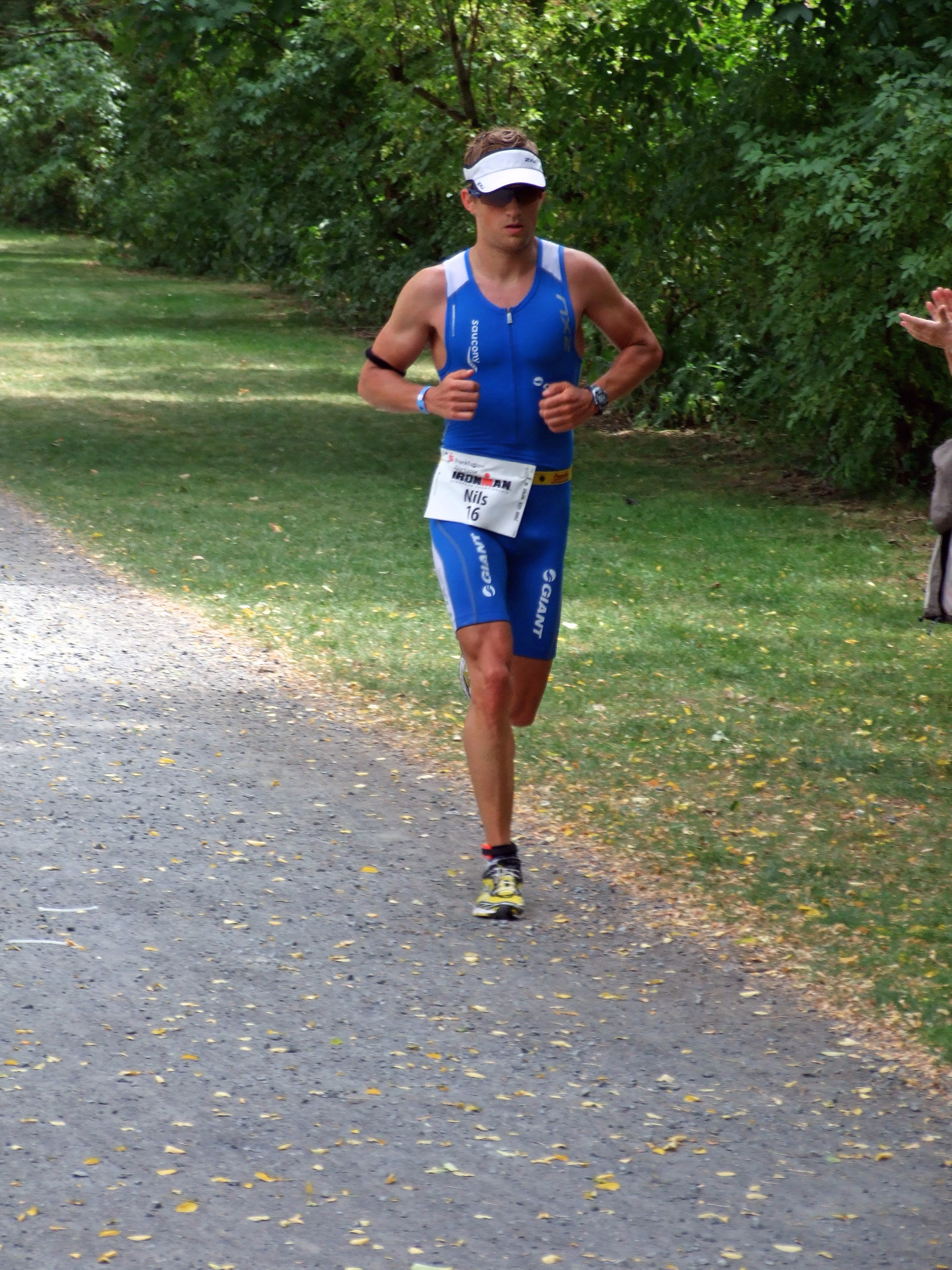 Nils Goerke, Ironman Germany, Frankfurt 2008